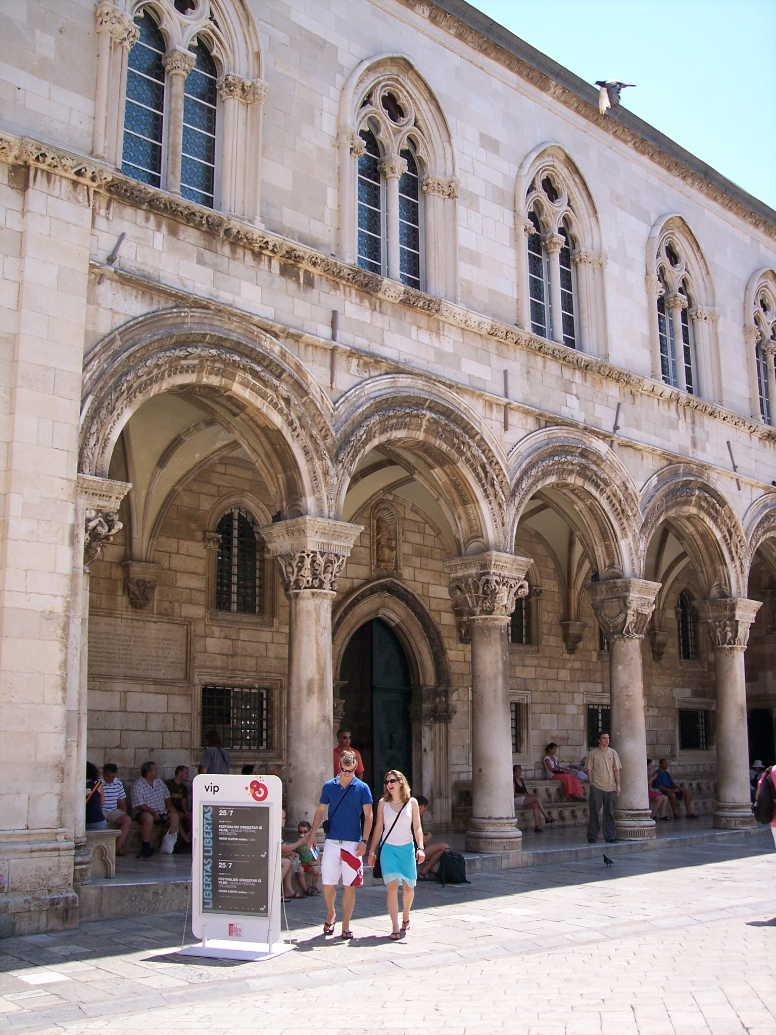 Rector's palace in Dubrovnik (Croatia)